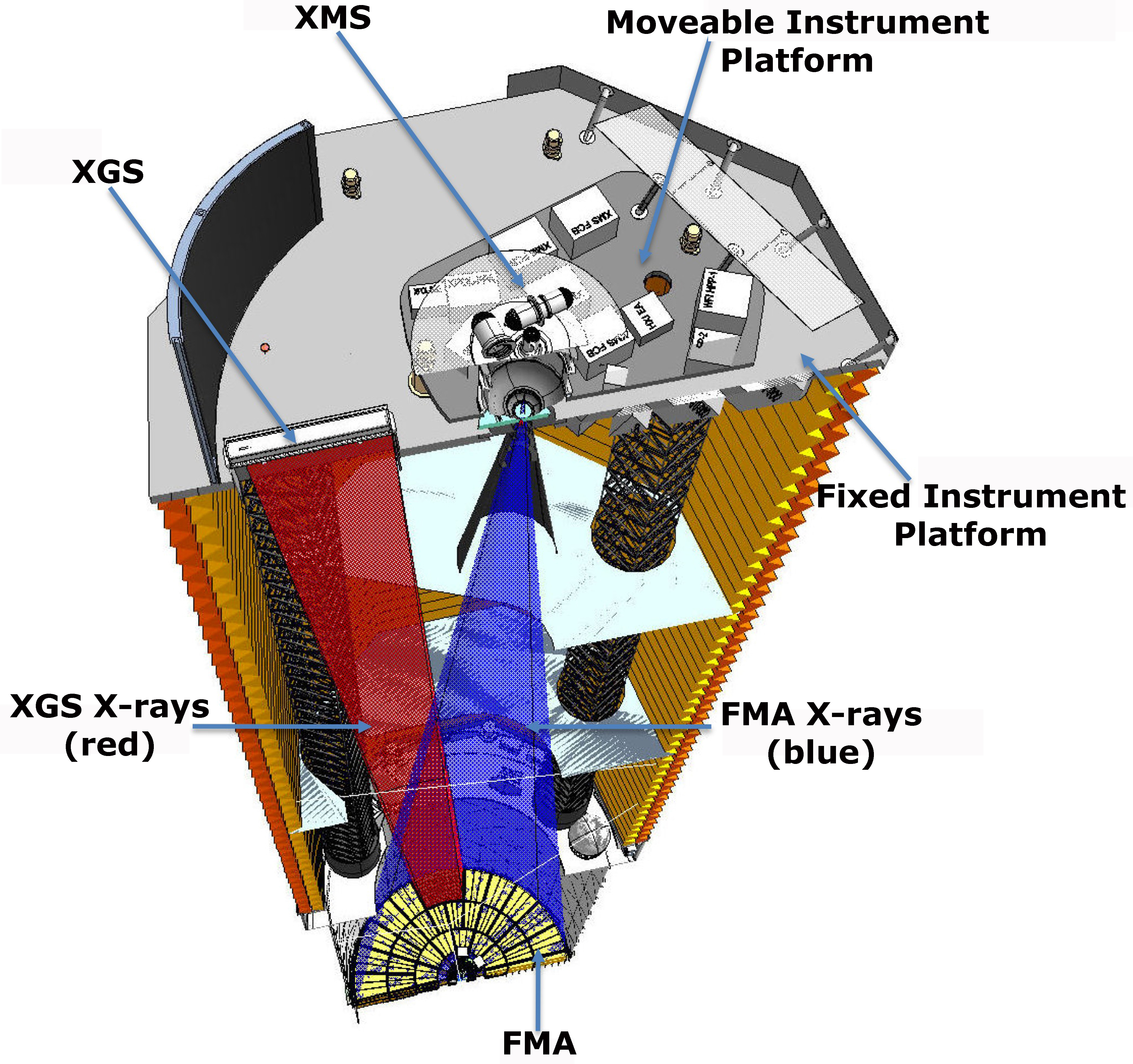 IXO (International X-ray Observatory) Cutaway View. Credit: NASA